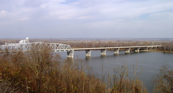 Mark Twain Memorial Bridge. Taken by madmaxmarchhare in Nov 2006.